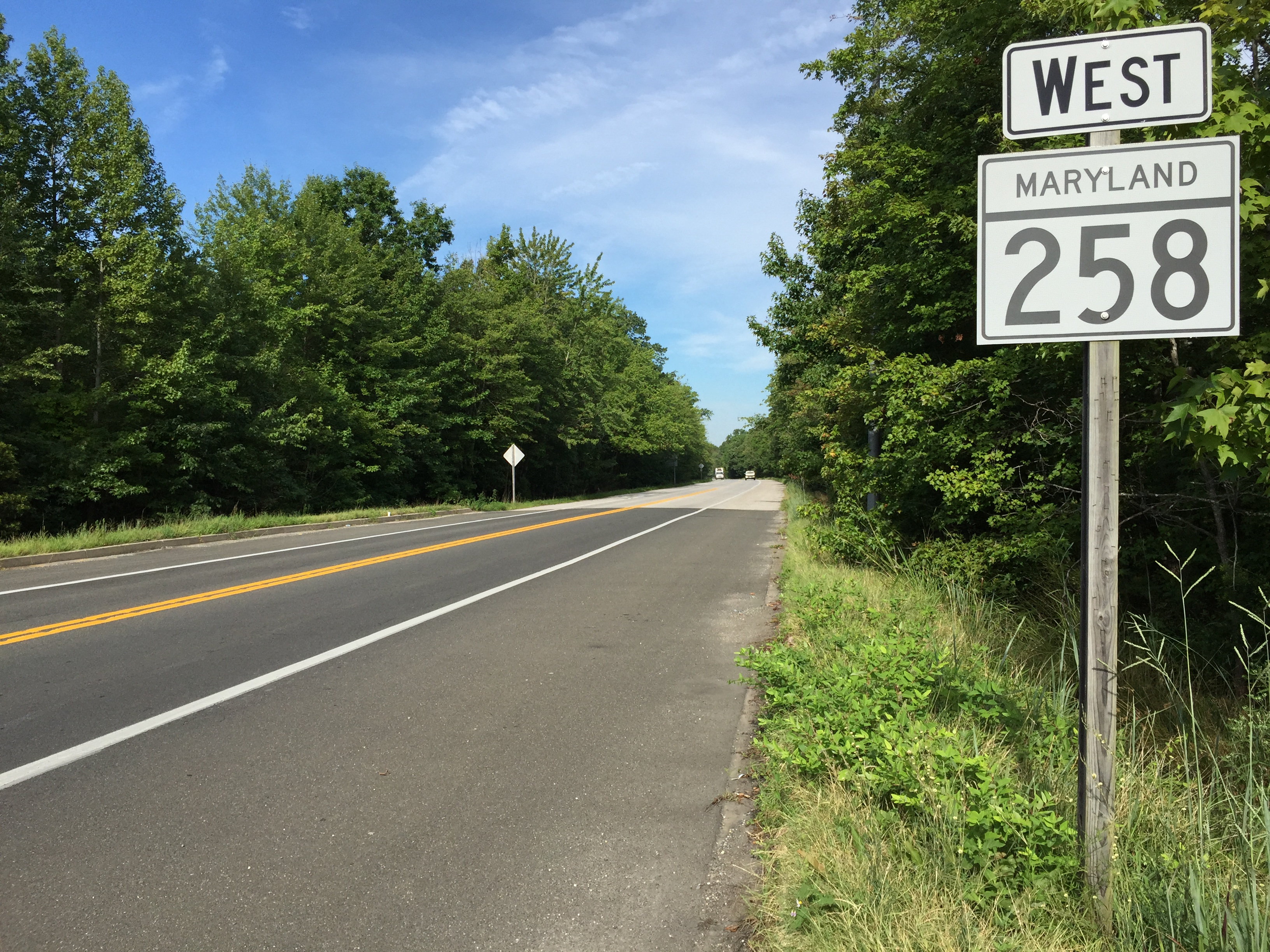 View west along Maryland State Route 258 (Bay Front Road) at Maryland State Route 256 (Deale-Churchton Road) in Deale, Anne Arundel County, Maryland